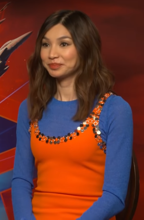 Brie Larson, Gemma Chan, and Lashana Lynch reveal all about their ideal Marvel dinner dates, funniest on set moments and working with Samuel L Jackson.